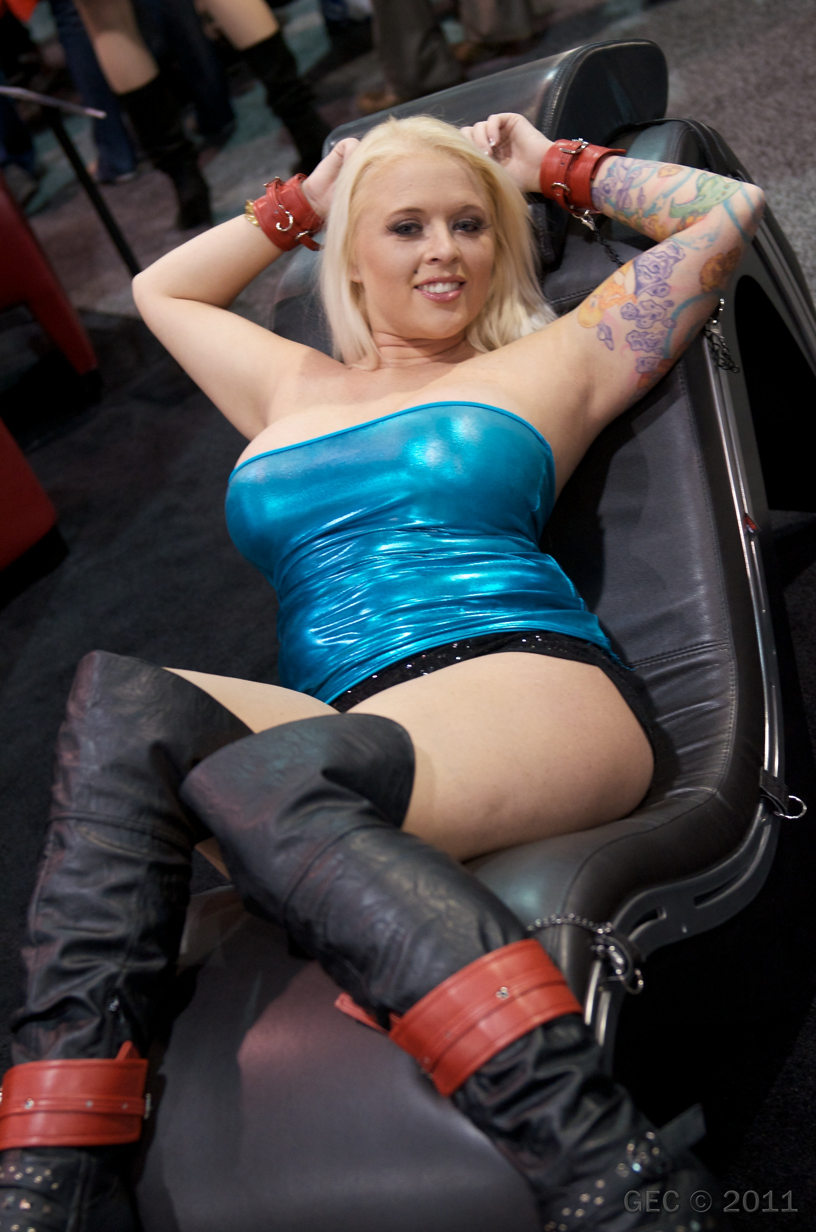 2011 AVN Adult Entertainment Expo (AEE) - Las Vegas Sands Center.